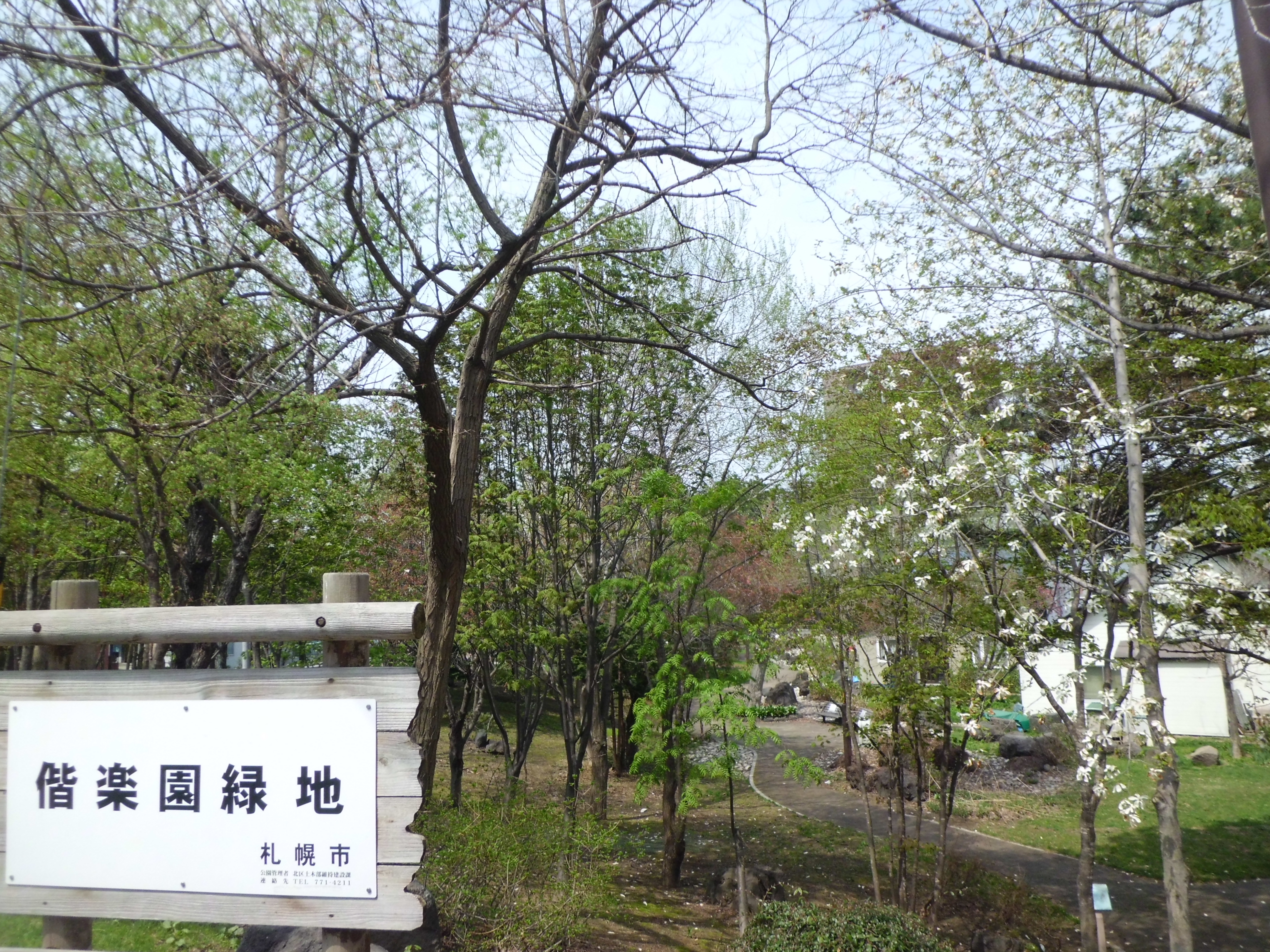 Kairakuen Park in Kita-ku, Sapporo